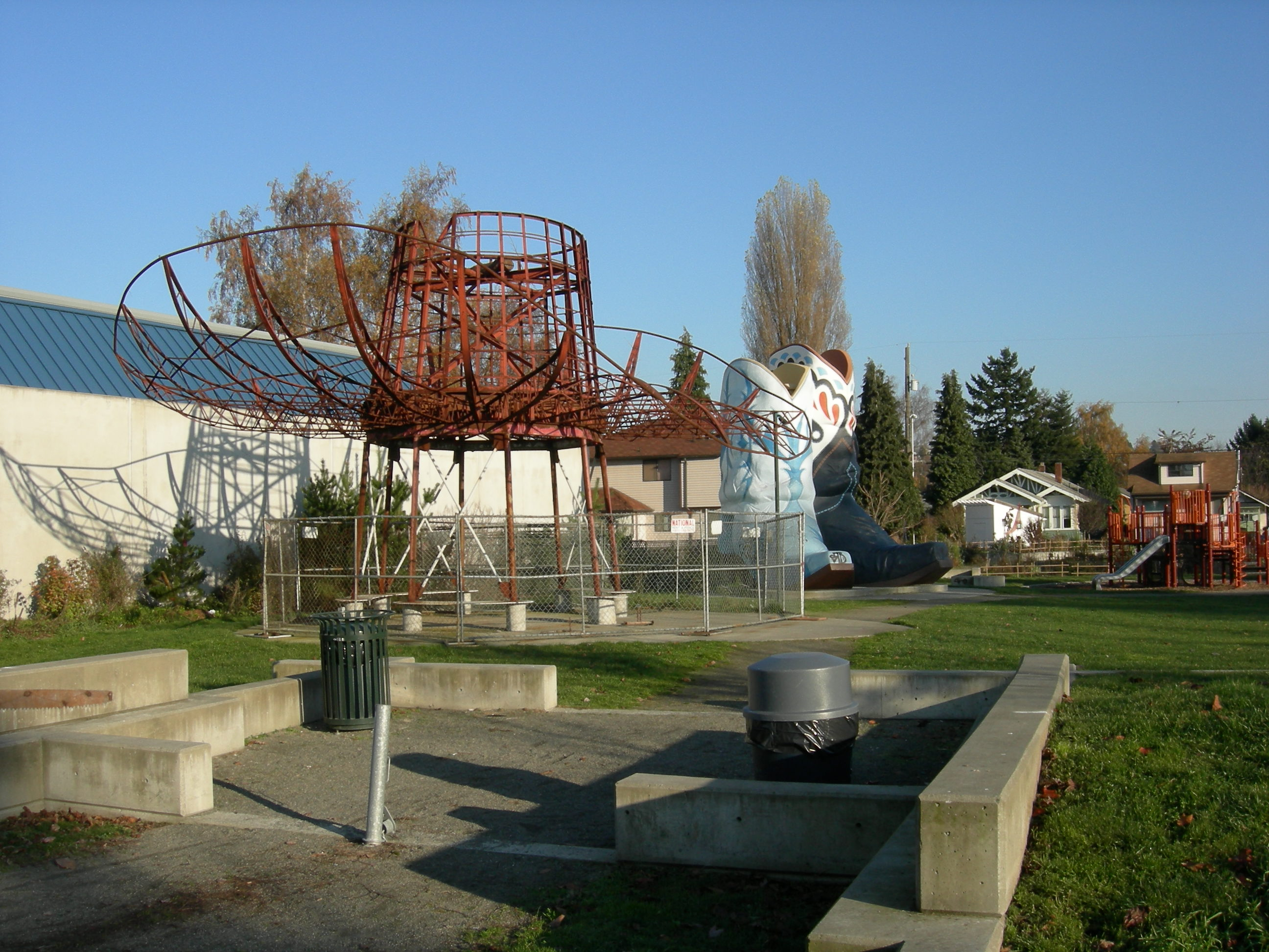 Oxbow Park, Georgetown, Seattle, Washington. The Hat & Boots were originally part of a now-demolished gas station; designated as a city landmark, they were salvaged and moved to the park. See Alyssa Burrows, Hat 'n' Boots gas station design wins U.S. Patent on March 20, 1956, HistoryLink, August 2, 2001.